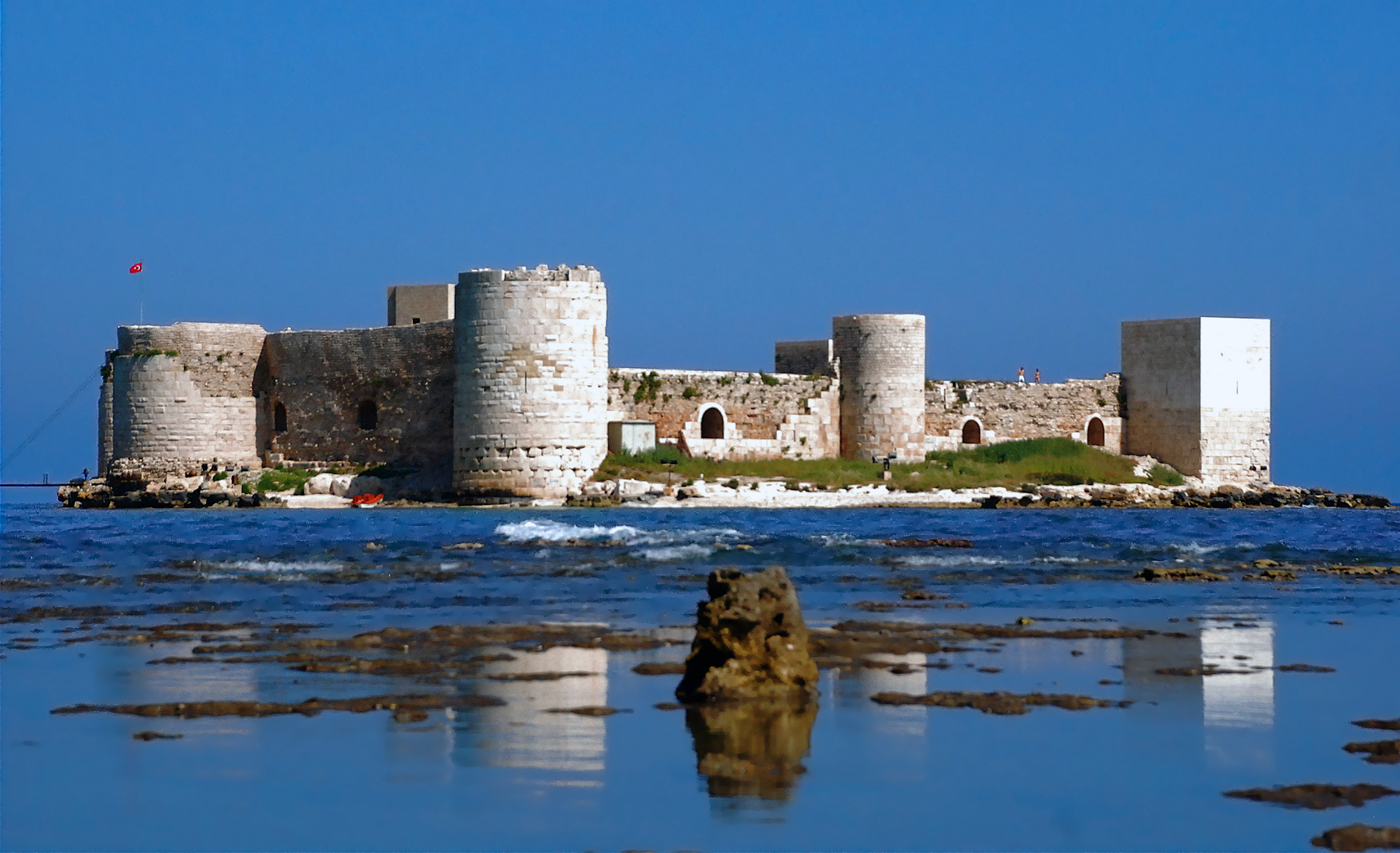 A northwestern view of Kızkalesi (Korykos). Erdemli, Mersin - Turkey.